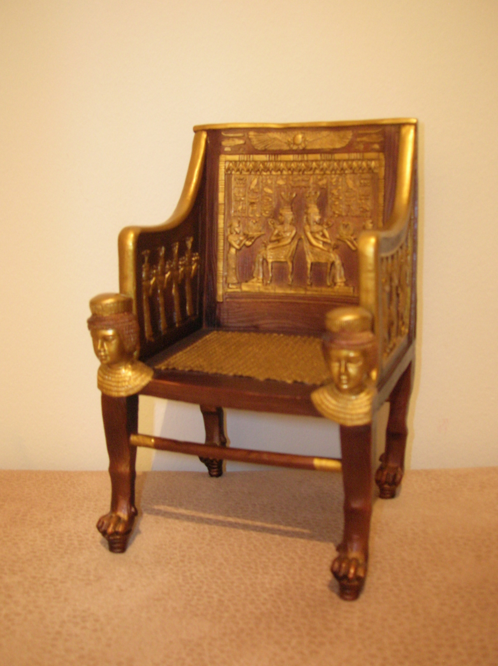 Replica of the chair of Princess Sitamun (18th dynasty of Ancient Egypt). As it is the replica of a more than 3000 years old work, original copyright does not apply.